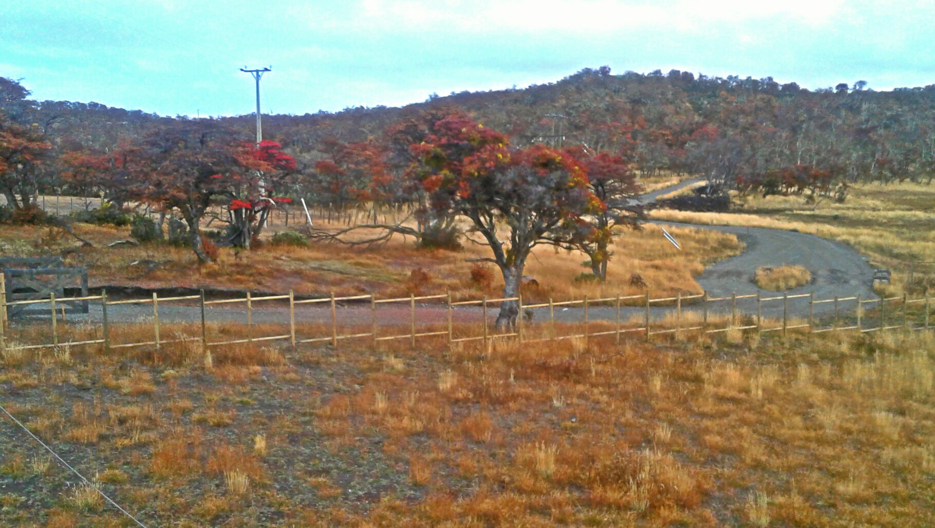 A rural road near Punta Arenas. 2016.